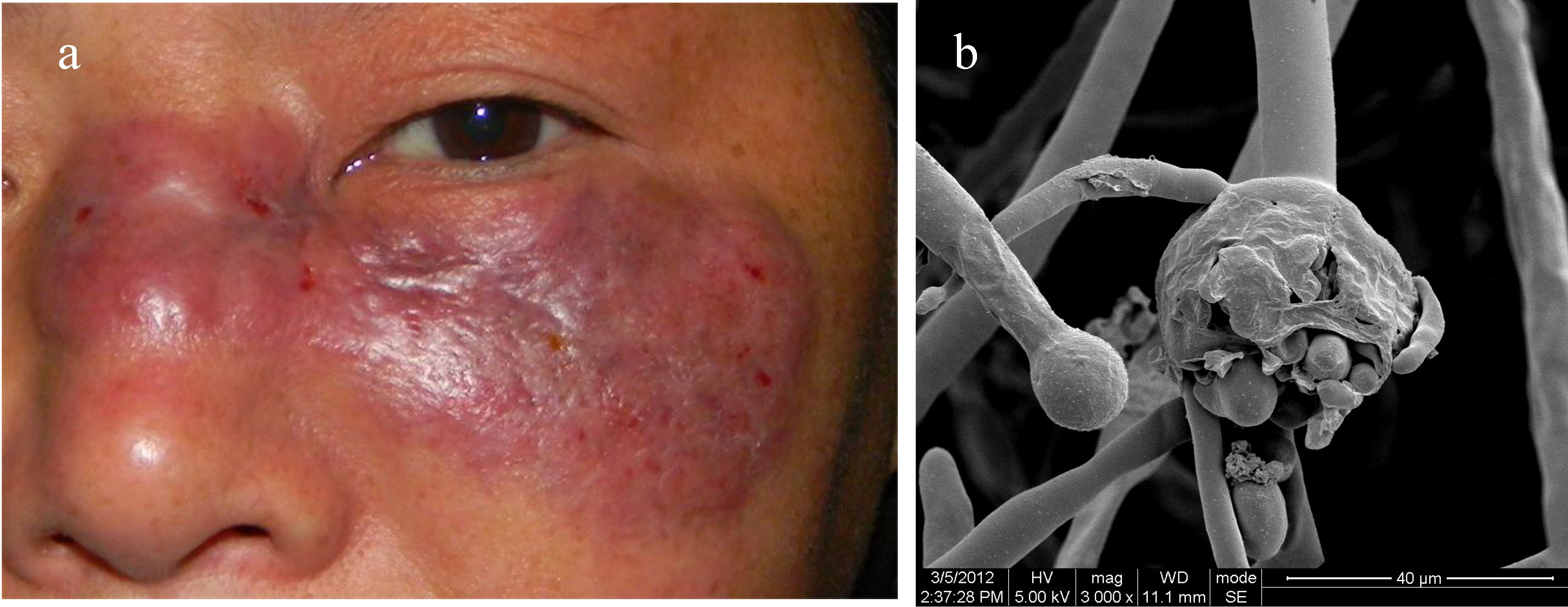 a. A 47-year-old farmer was presented to our clinic with 1-year history of progressive red plaque around the inner canthus. Faint yellow exudation was oozing from the ulceration at the center of plaque. Some scales were also observed on the plaque. b. SEM observations revealed non-apophysate sporangia with pronounced columellae and conspicuous collarette at the base of the columella following sporangiospore dispersal.